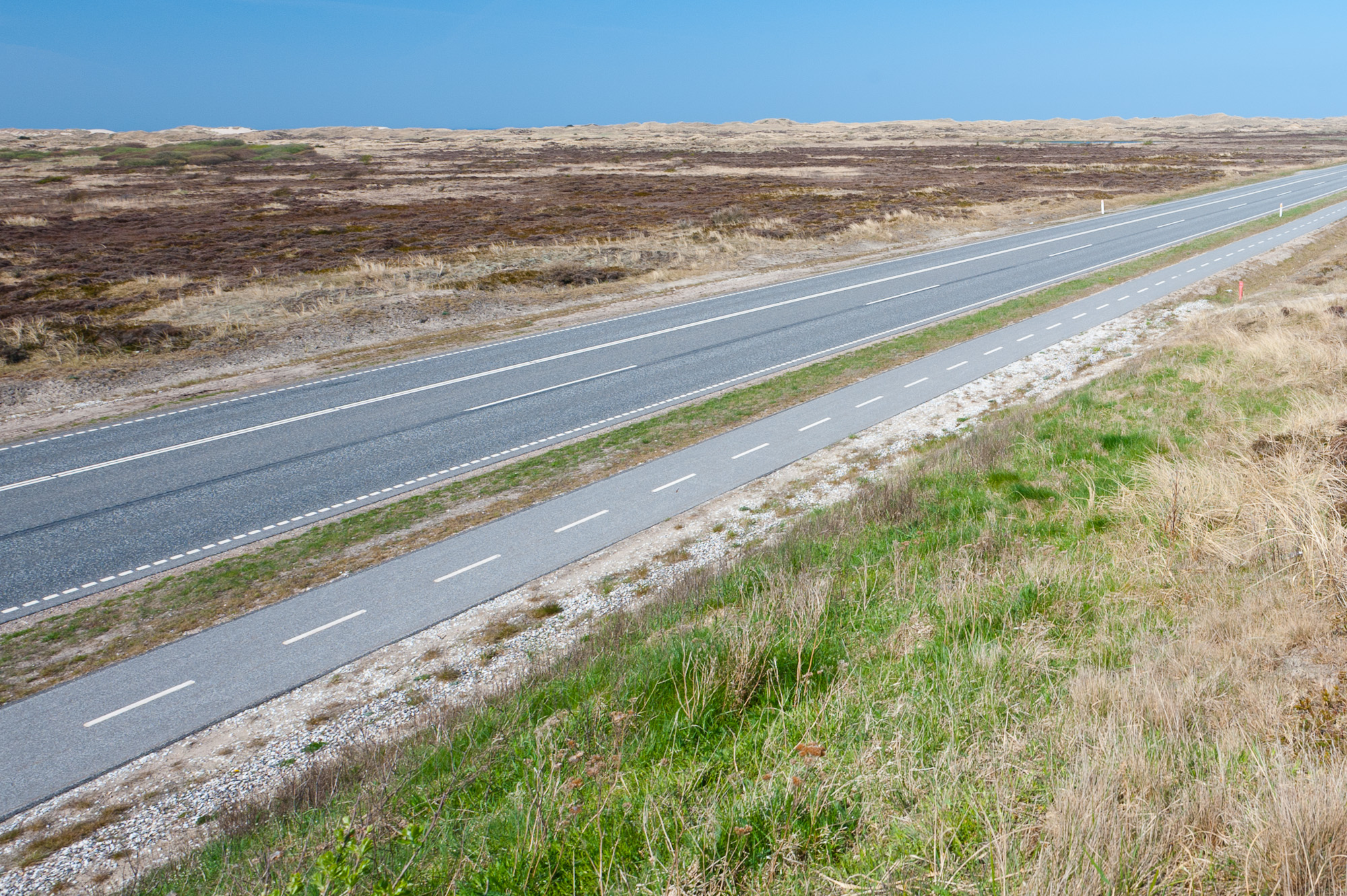 The road between Skagen and Frederikshavn in Northern Jutland (just south of Skagen)